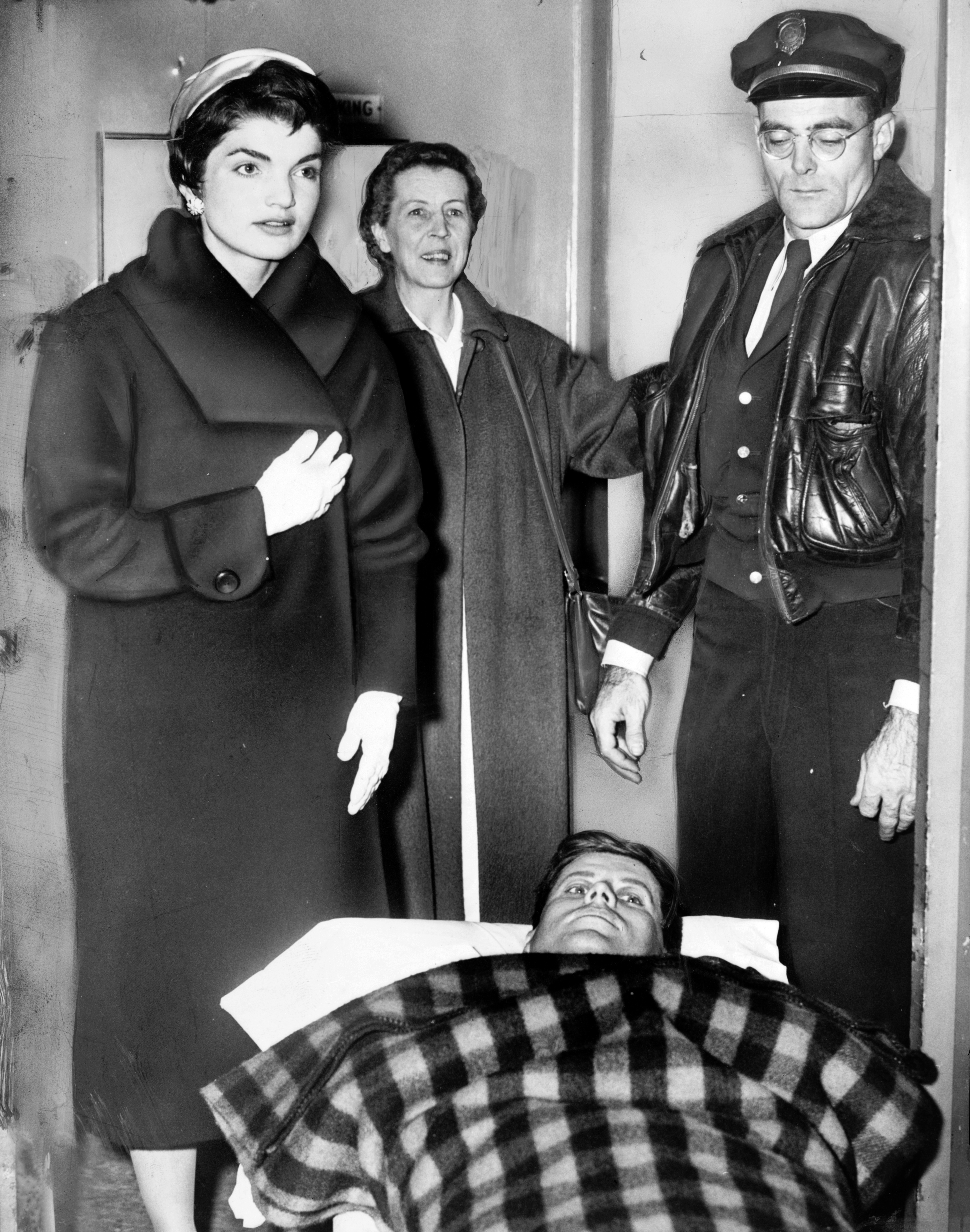 John F. Kennedy leaving on gurney from hospital following spinal surgery, as his wife Jacqueline stands over him